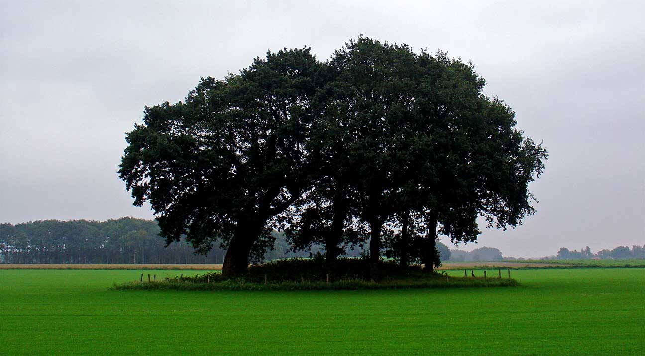 Tumulus between Borger and Drouwen